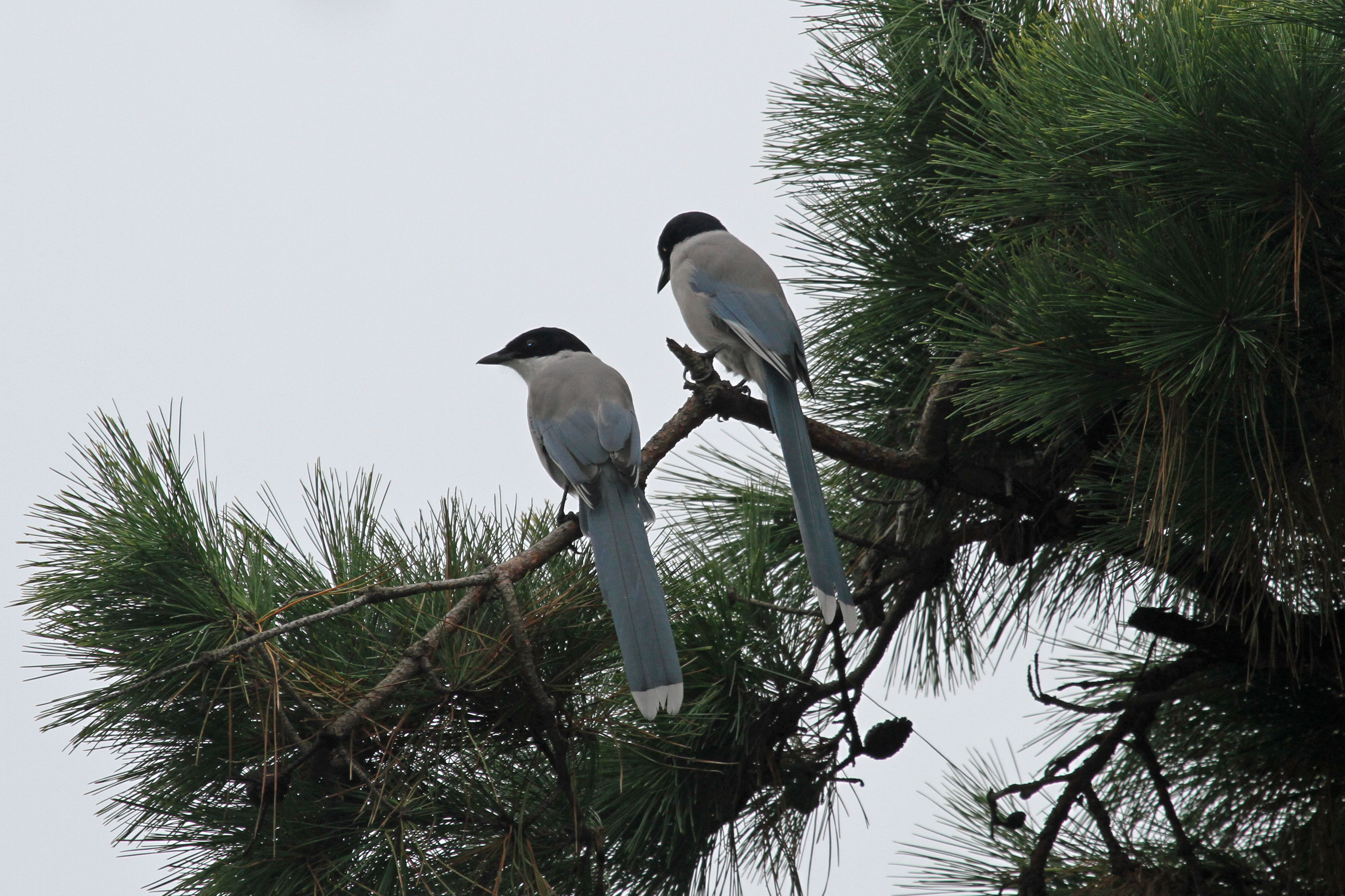 Two Azure-winged Magpies Cyanopica cyanus in Tokai 1 Chome, Tokyo, Japan.